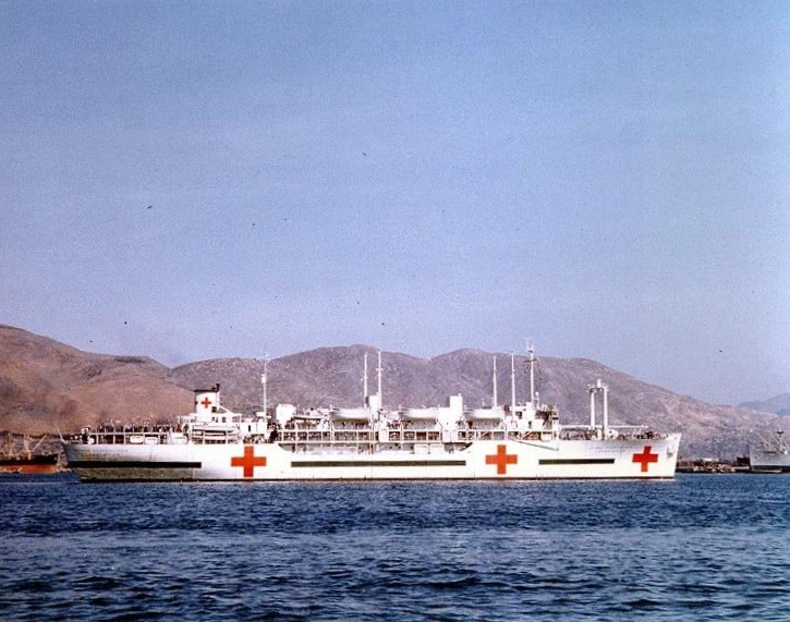 The U.S. Navy hospital ship USS Consolation (AH-15) underway off Inchon, Korea, 8 May 1952.